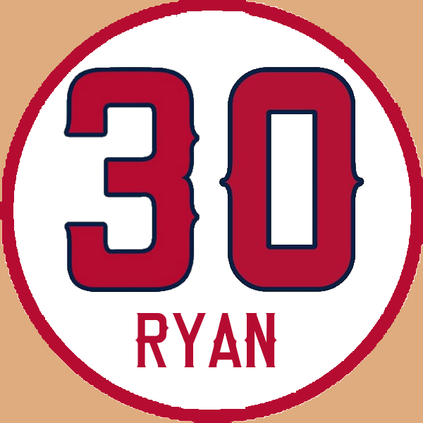 Illustration of Nolan Ryan's Retired Angels Number